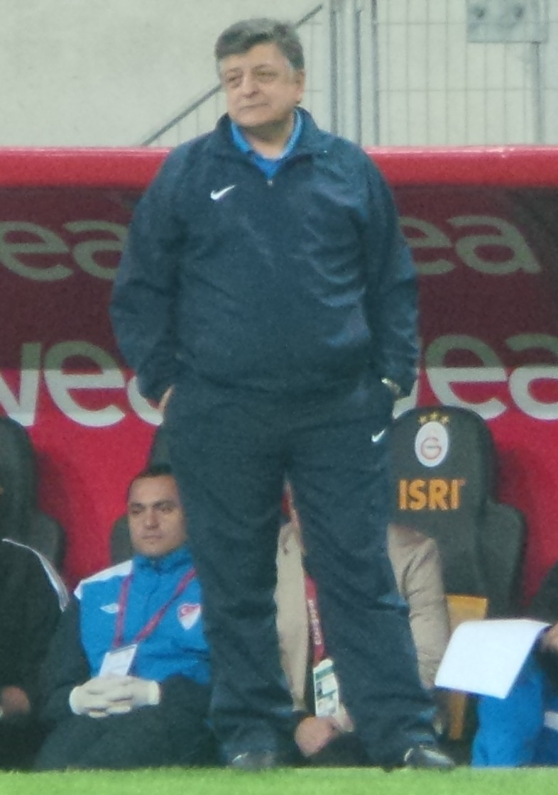 Vural vs GS